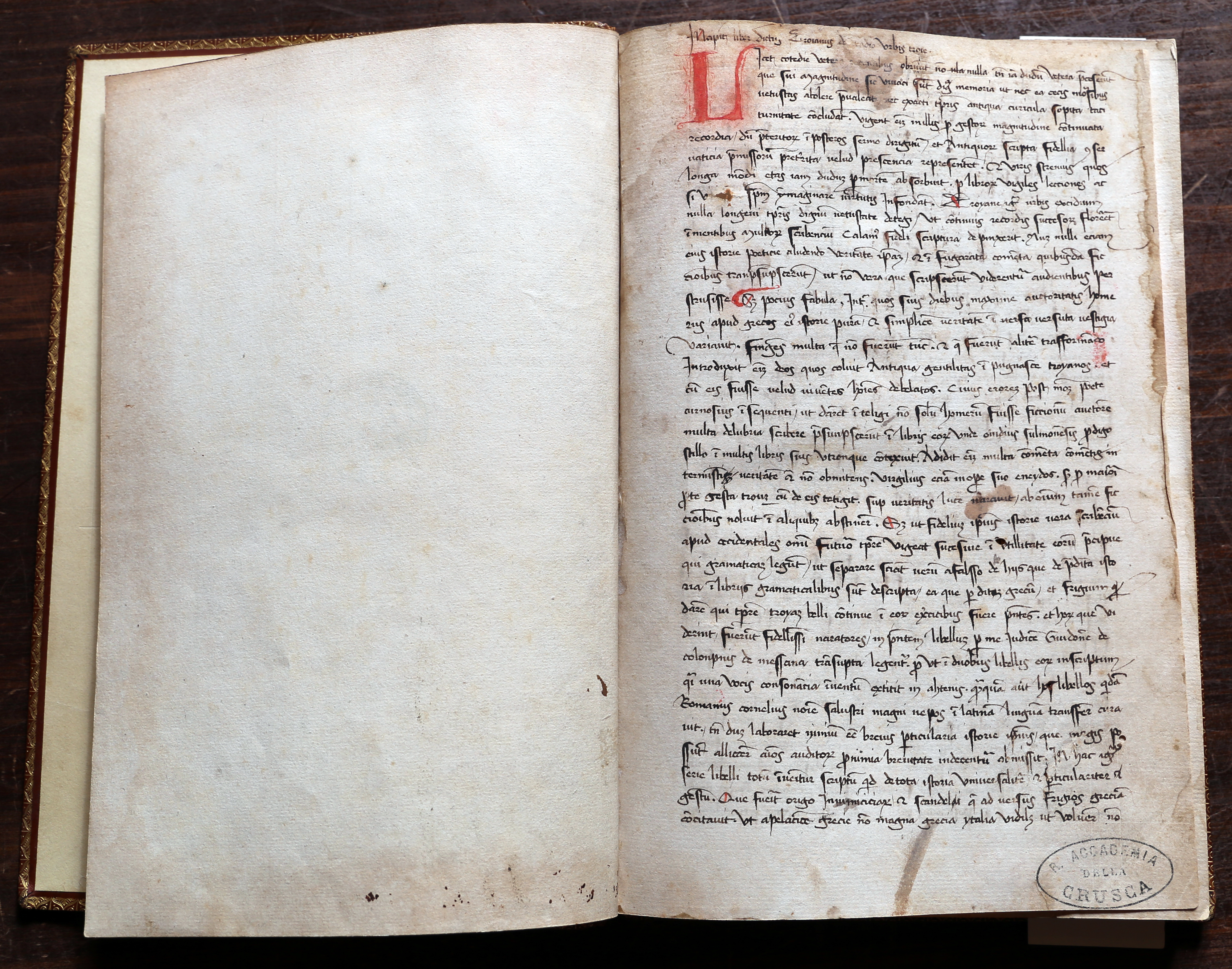 Columnae De excidio Trojae (Crusca Ms. 90)